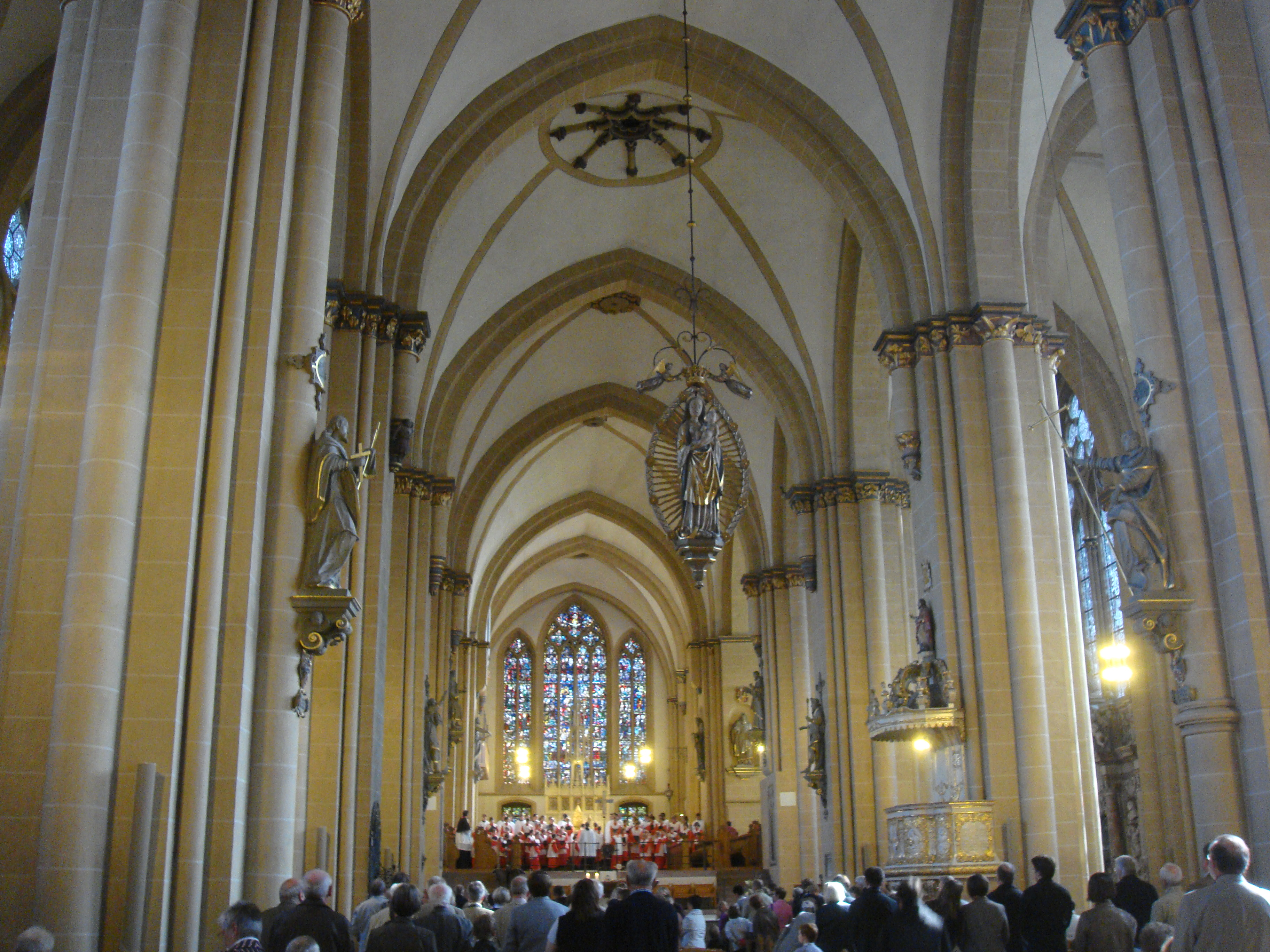 Sunday service in the cathedral of Paderborn, Germany, with the Domchor (Cathedral Choir)